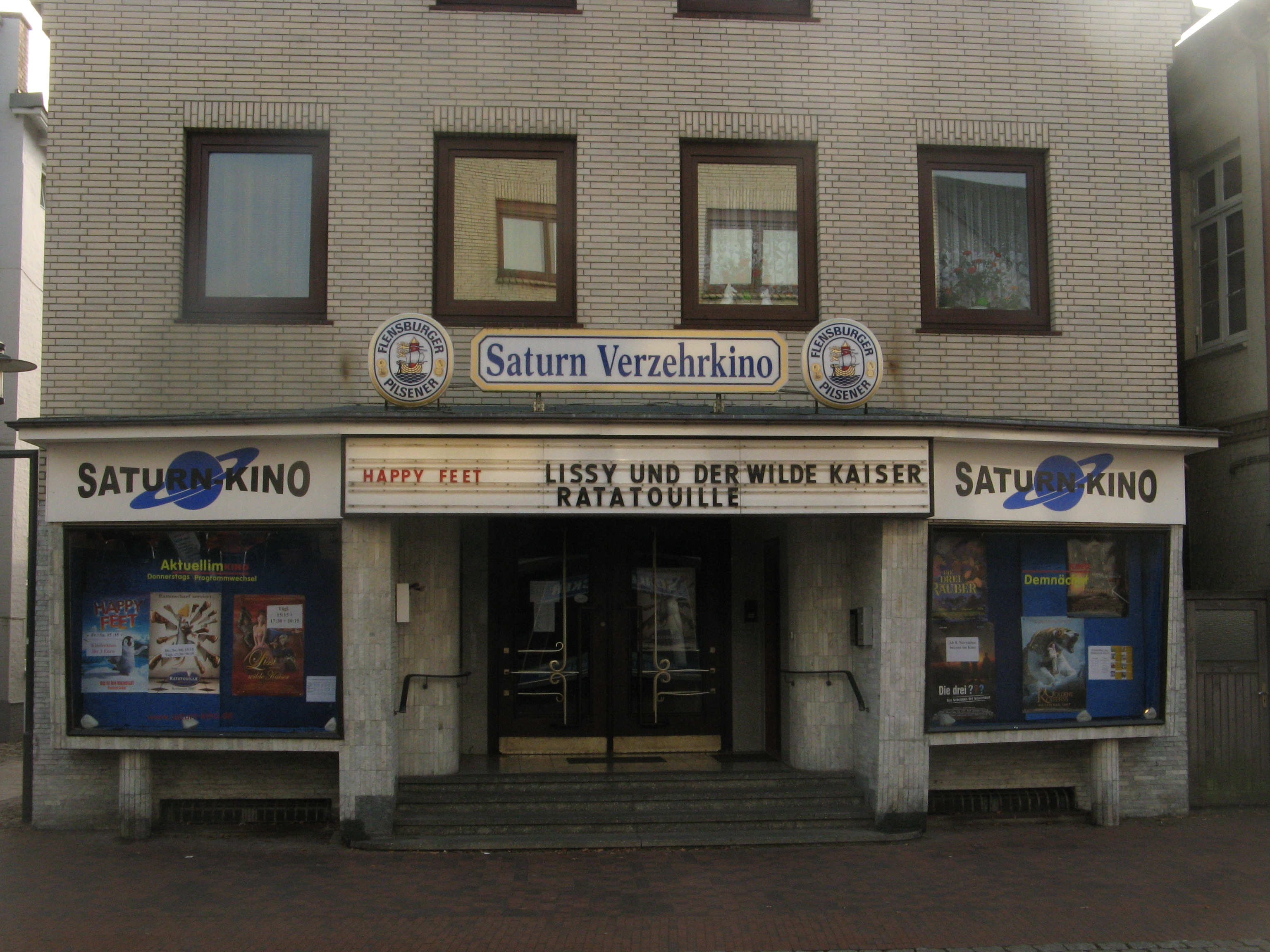 Small house in Itzehoe, Holstein, Germany